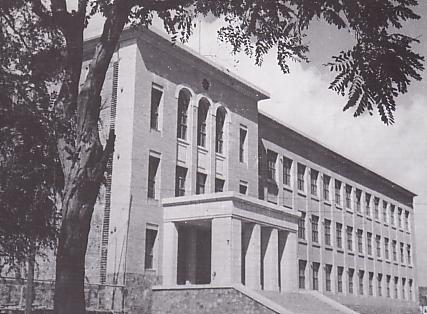 Ryojun High School under the Old System of Education